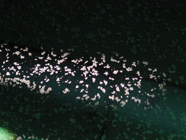 Photo showing detail of calcite rafts on surface of water in Carpinteria Reservoir